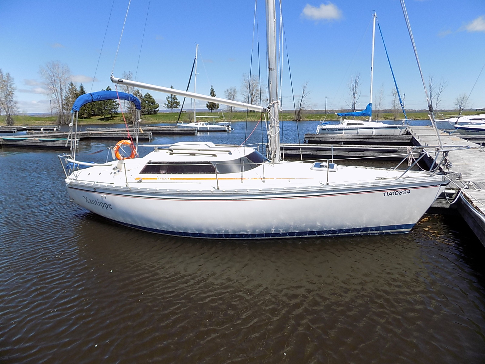 A Jeanneau 27 Fantasia sailboat named Xantippe